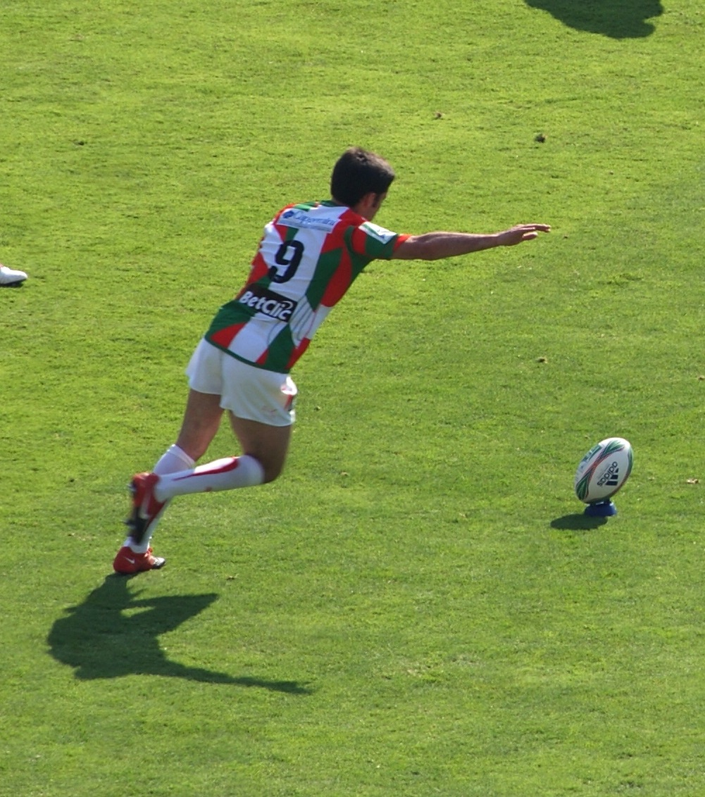 Cropped image of Yachvili kicking Biarritz olympique Pays basque